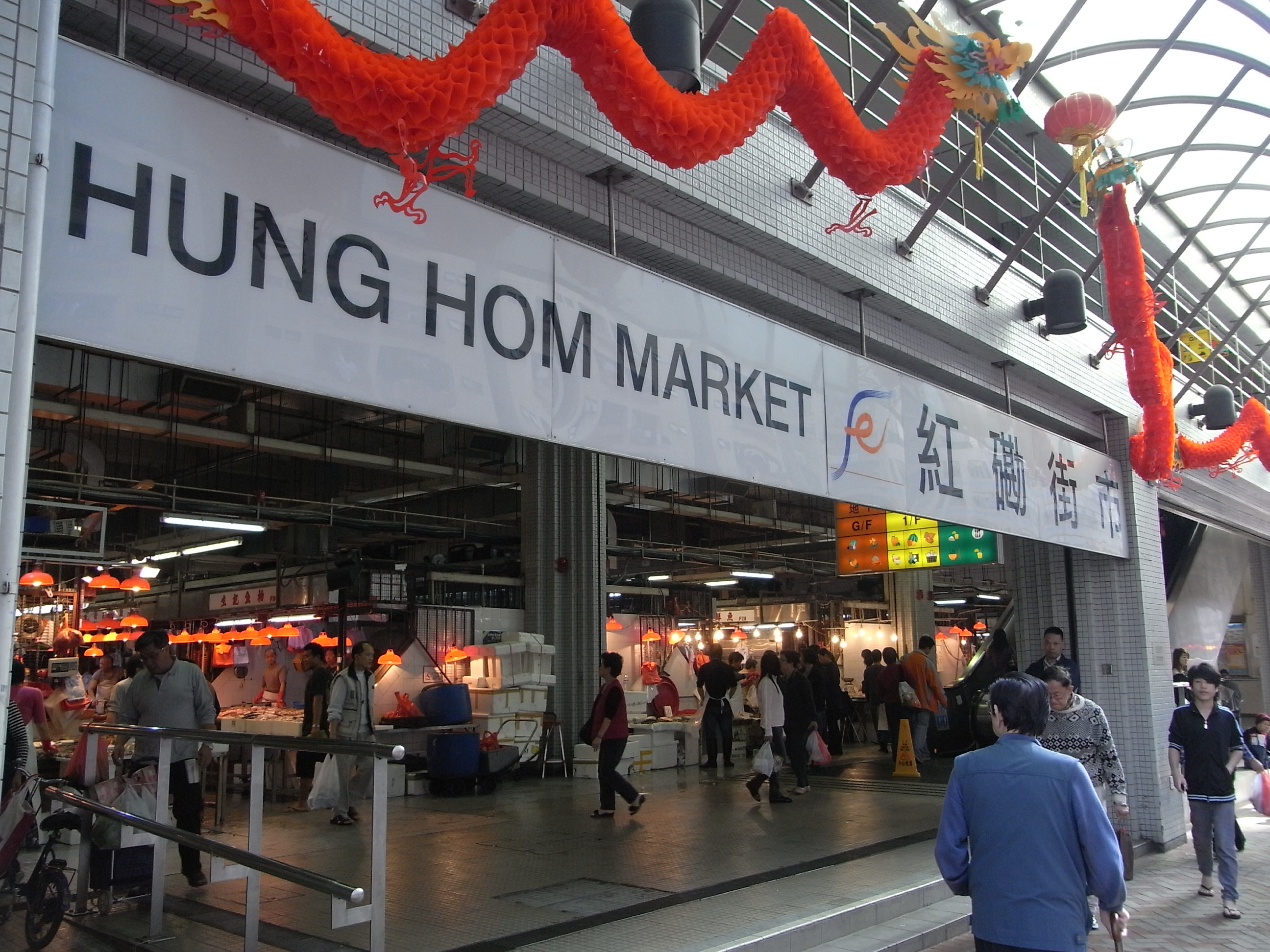 紅磡